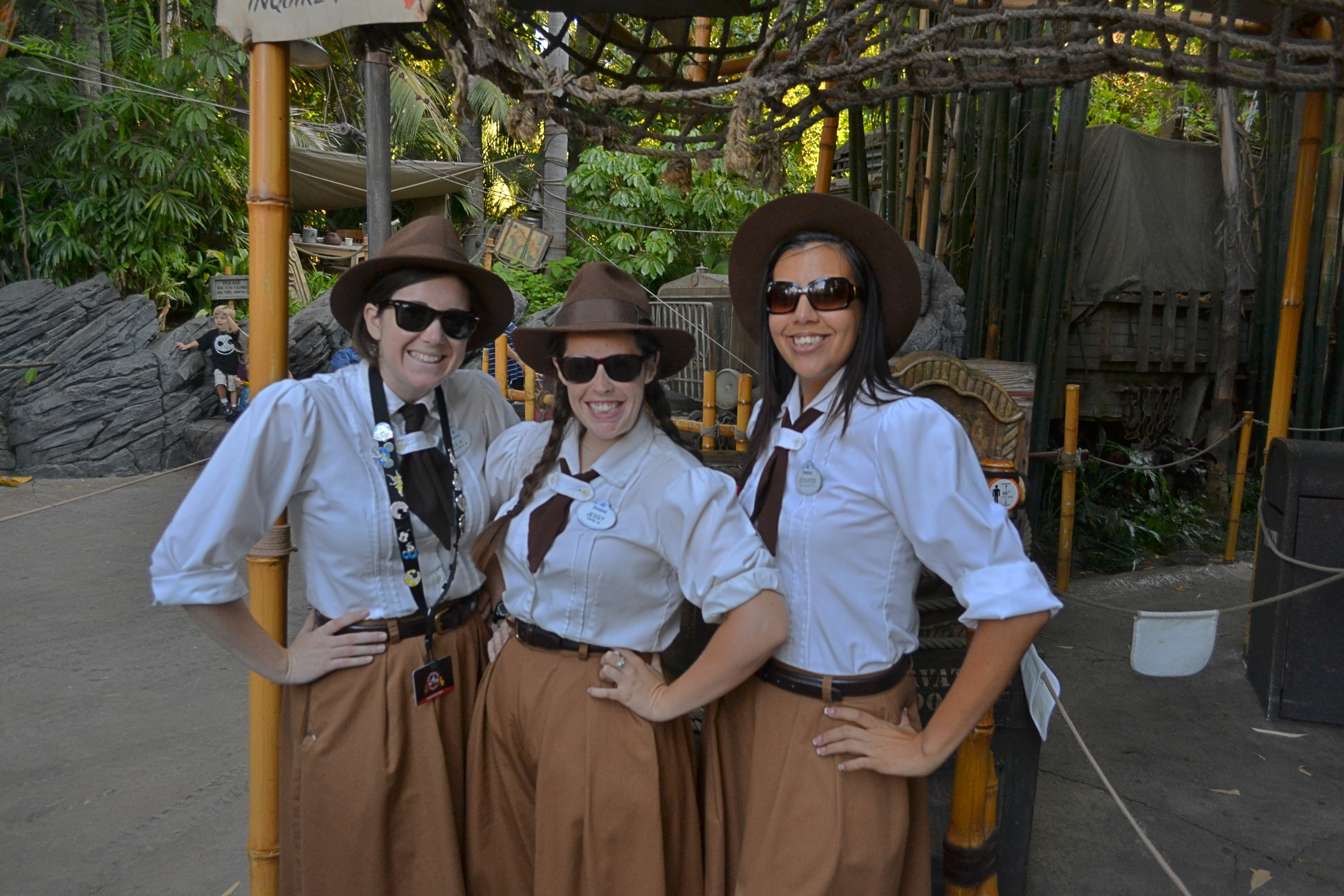 Three Disneyland cast members (Julia, Jessy, and Jennifer) in costume for the Indiana Jones ride